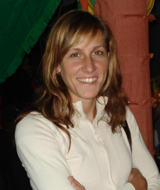 from private party